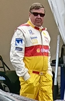 1985 World Rally Champion Timo Salonen, pictured at the Ignition Festival of Motoring - held at the Scottish Event Campus - on 5 August 2017.